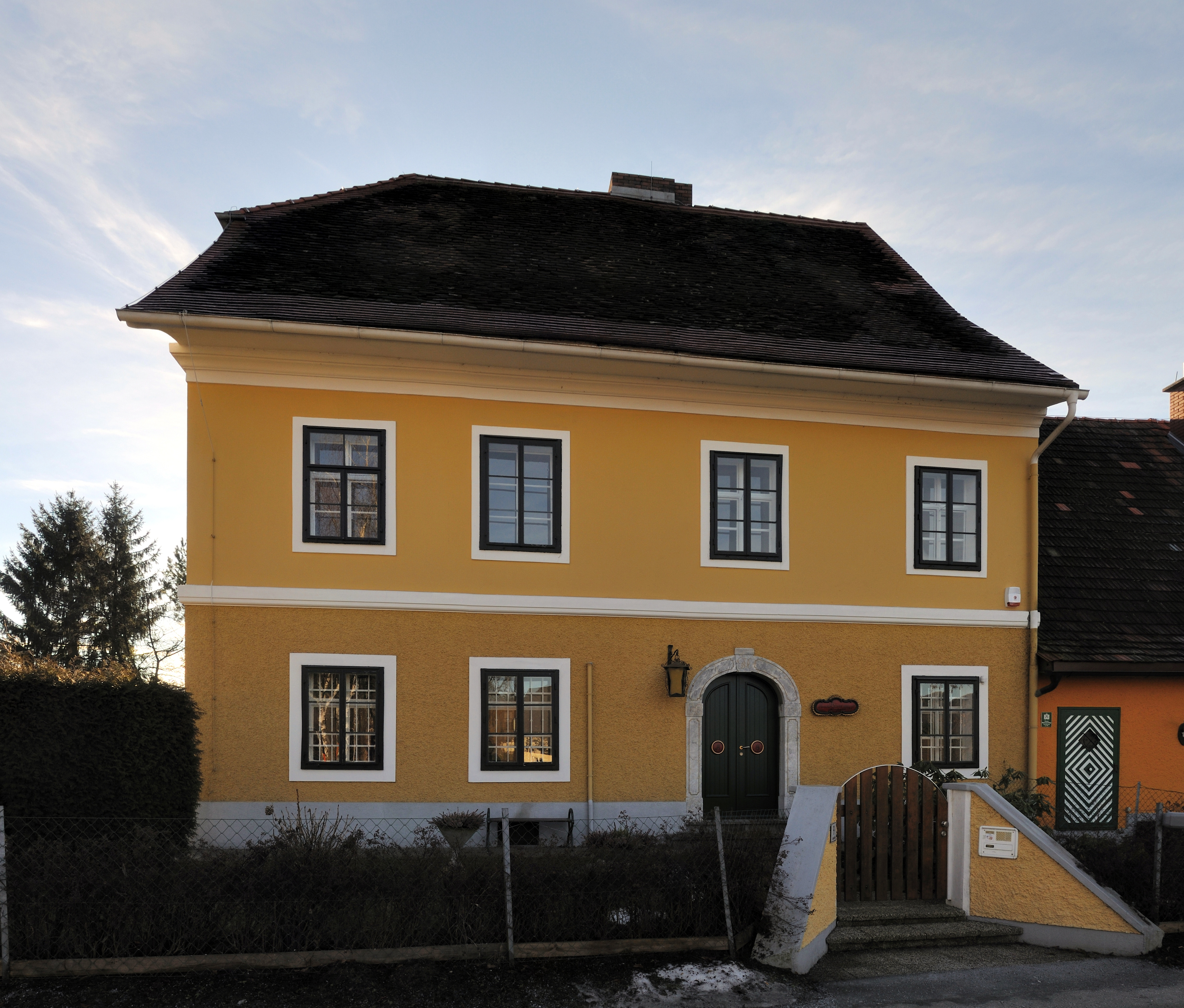 Thal: birthplace of Arnold Schwarzenegger